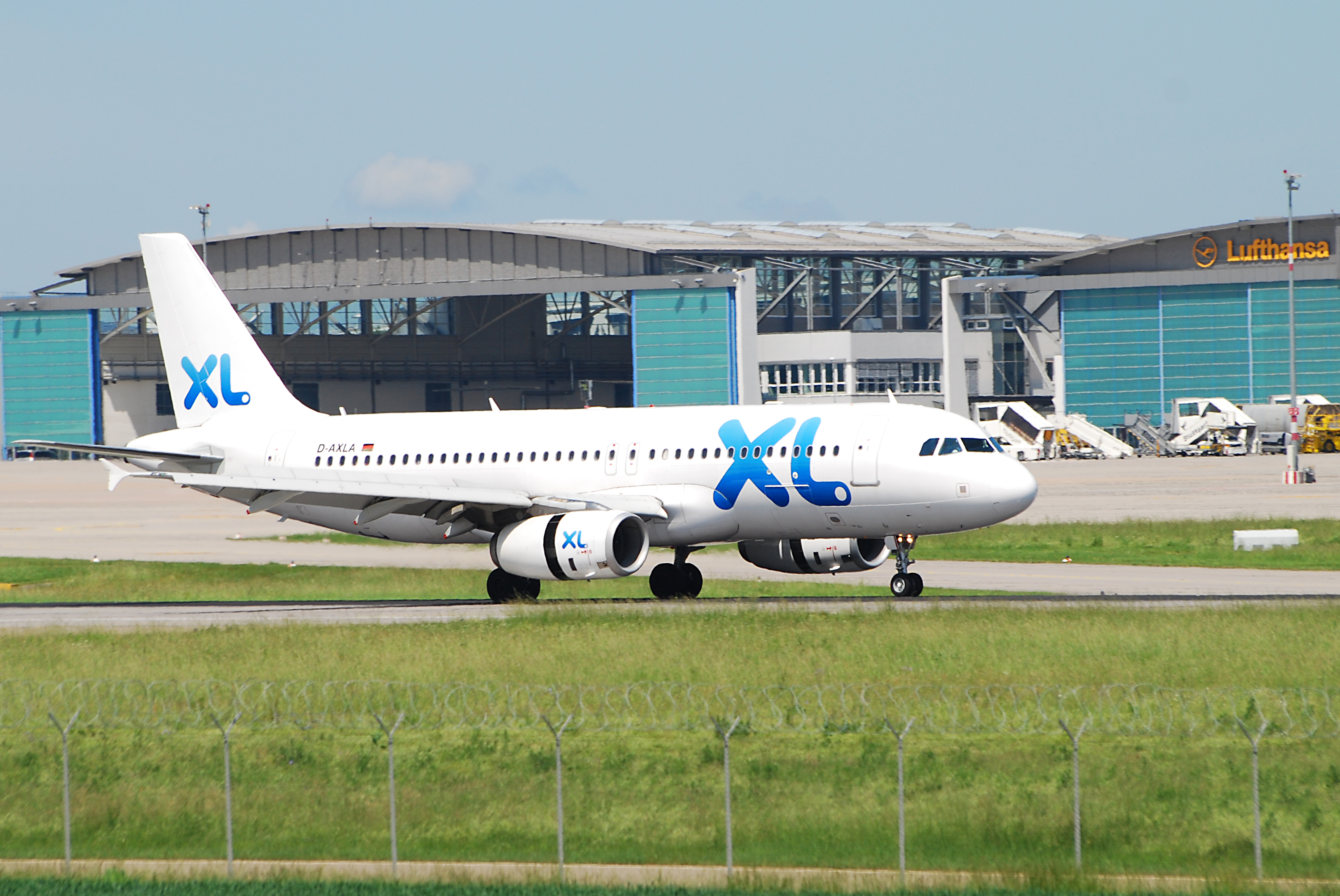 XL Airways (D-AXLA), Airbus A320 Spotting in June. Stuttgart Airport (STR / EDDS)